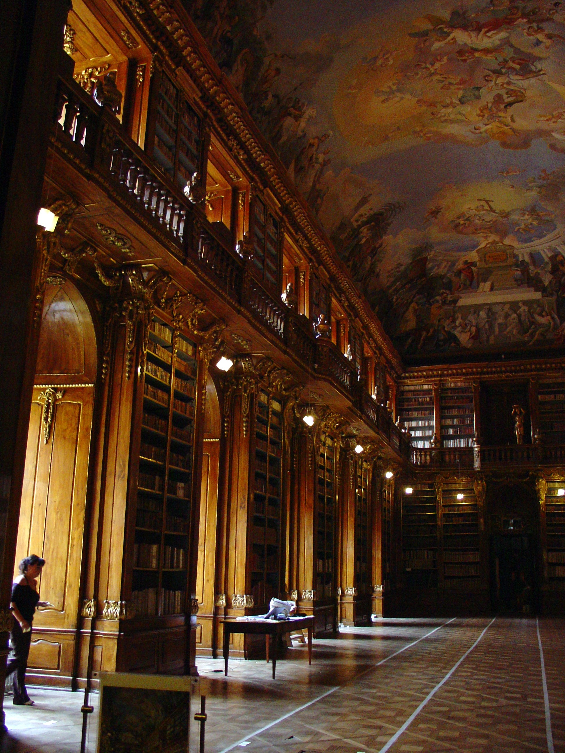 The philosophical's room from Strahov monastery (Prague). It was built for the books coming from Louka's convent, in Moravia, closed in 1782. The frescos, by Franz Maulbertsch, show human's fight for knownledge.